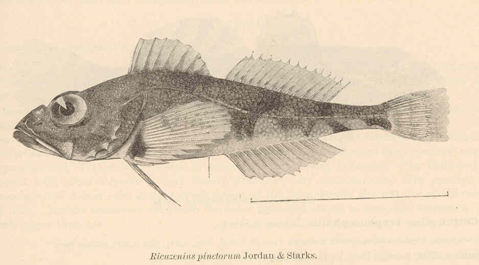 Ricuzenius pinetorum Jordan & Starks Subject: Ricuzenius, Cottidae Tag: Fish